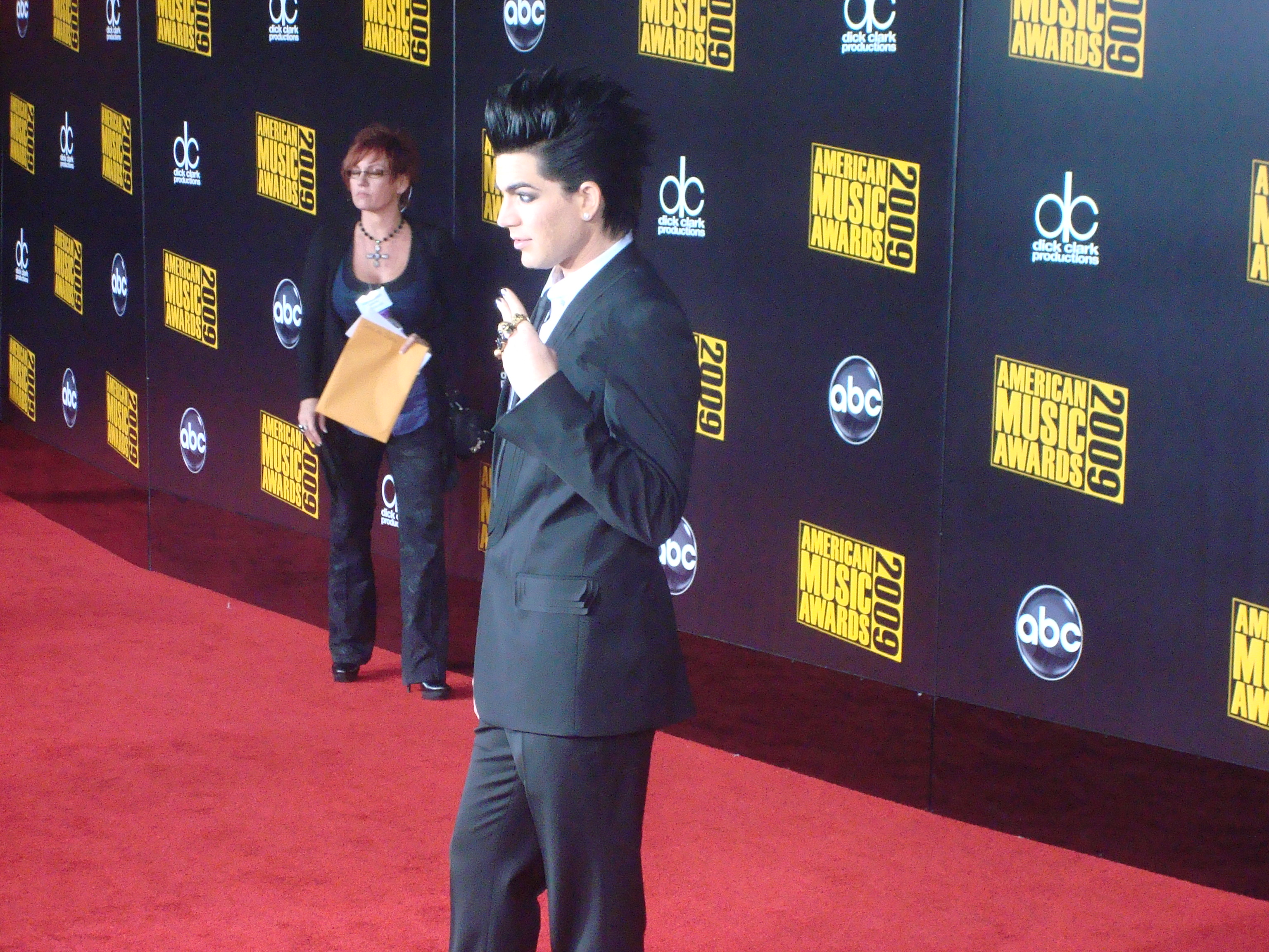 Adam Lambert at 2009 American Music Awards.